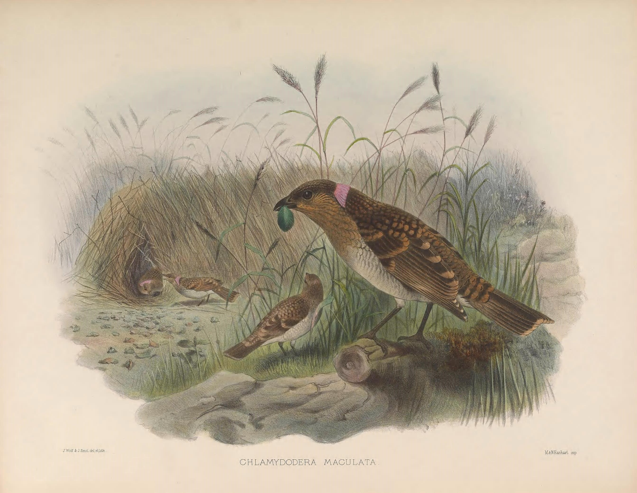 Drawing of 1873